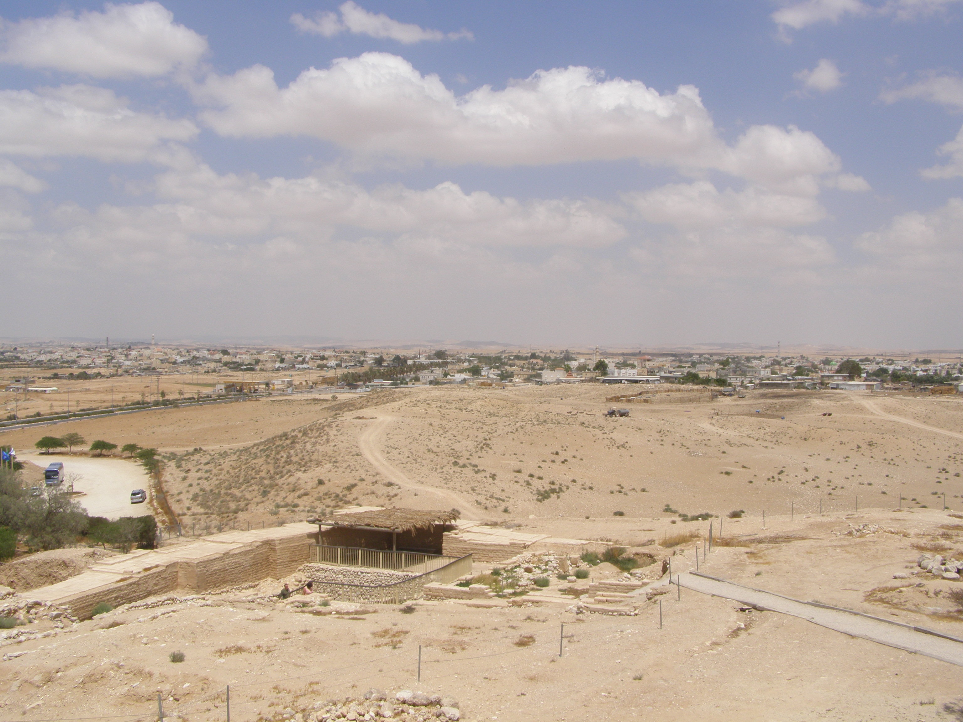 Tel Be'er Sheva, in front the entrance to the water system, at the back Tel Sheva